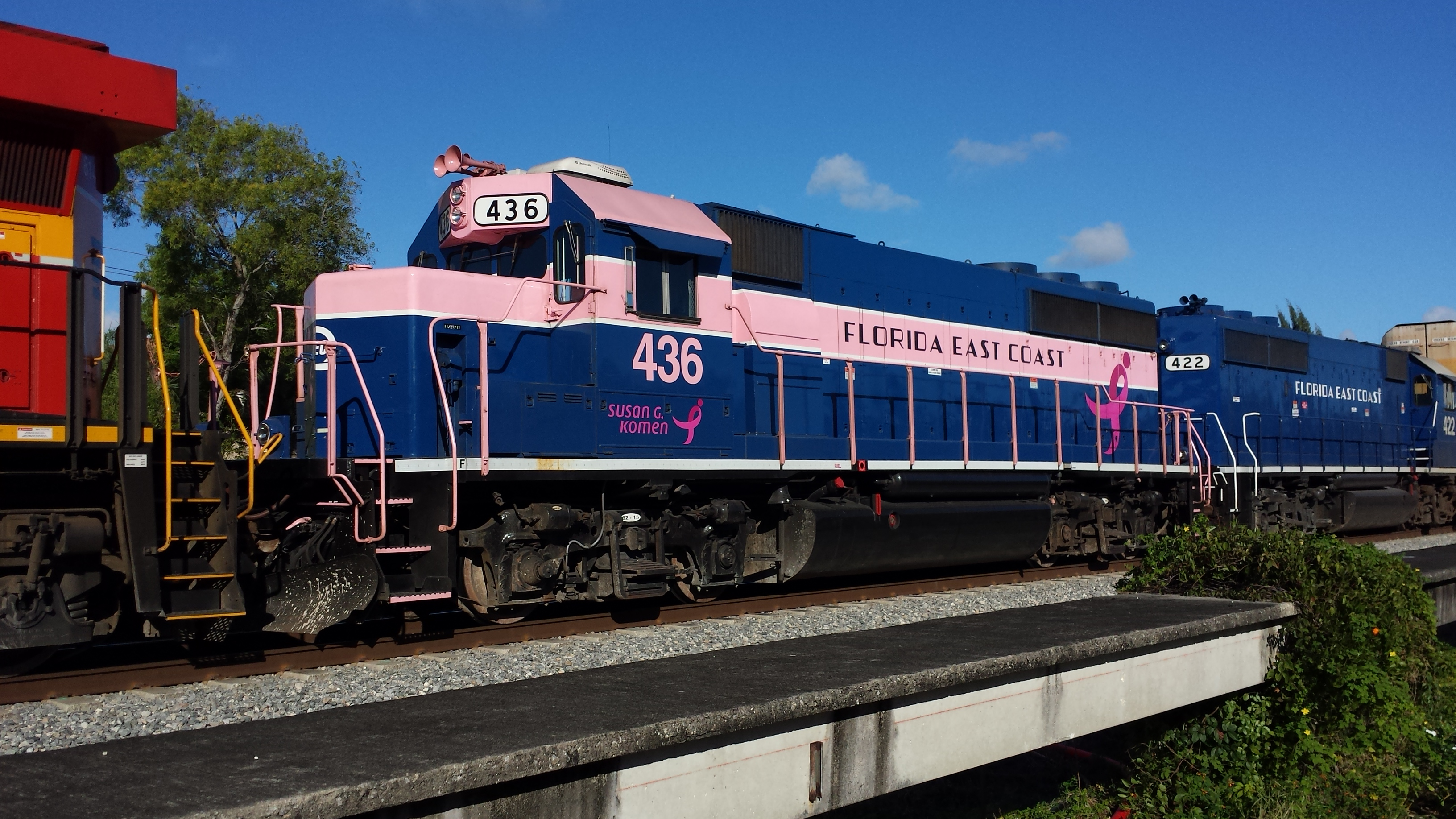 Original like her other sisters, this locomotive( both GP40-2s ) and 425 are now Susan G. Komen Breast Cancer Awareness engines.